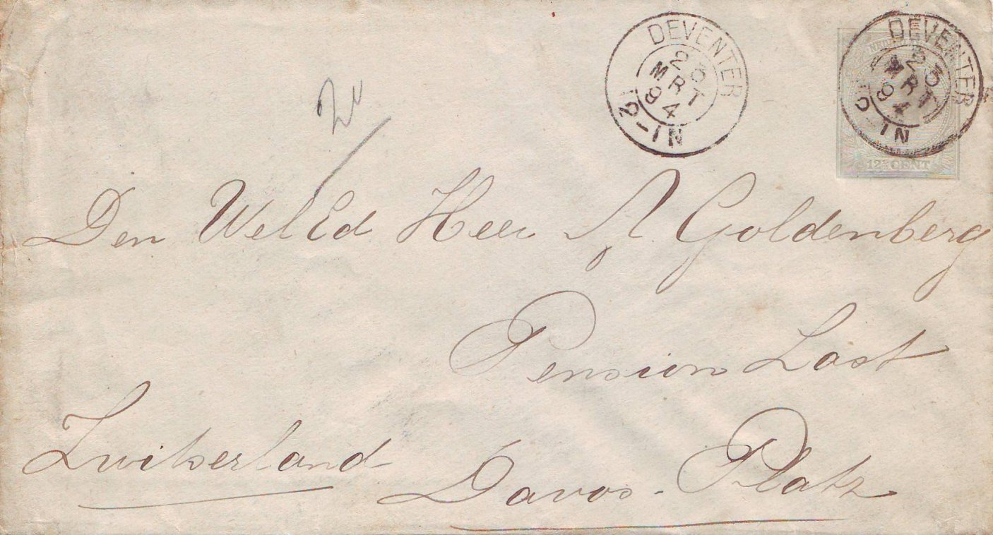 Letter with imprinted stamp from Deventer to Davos-Platz in Switzerland, 23 March 1894.